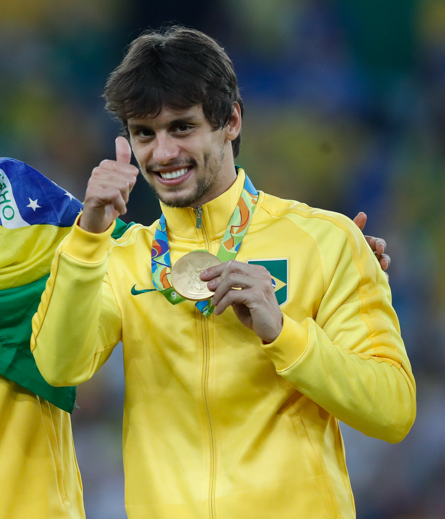 Rio de Janeiro - Brasil vence Alemanha e conquista primeiro ouro olímpico do futebol (Fernando Frazão/Agência Brasil)